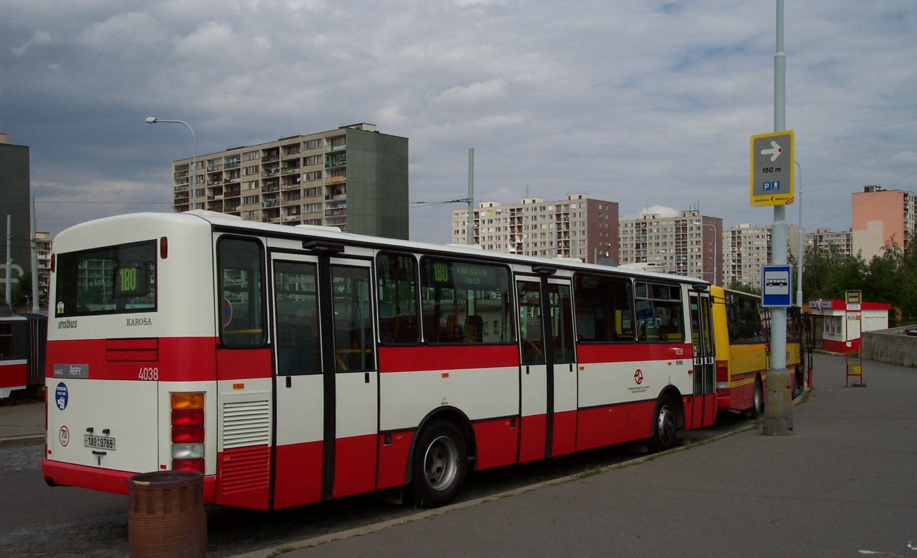 Last buses of clasic type of Karosa in Prague.